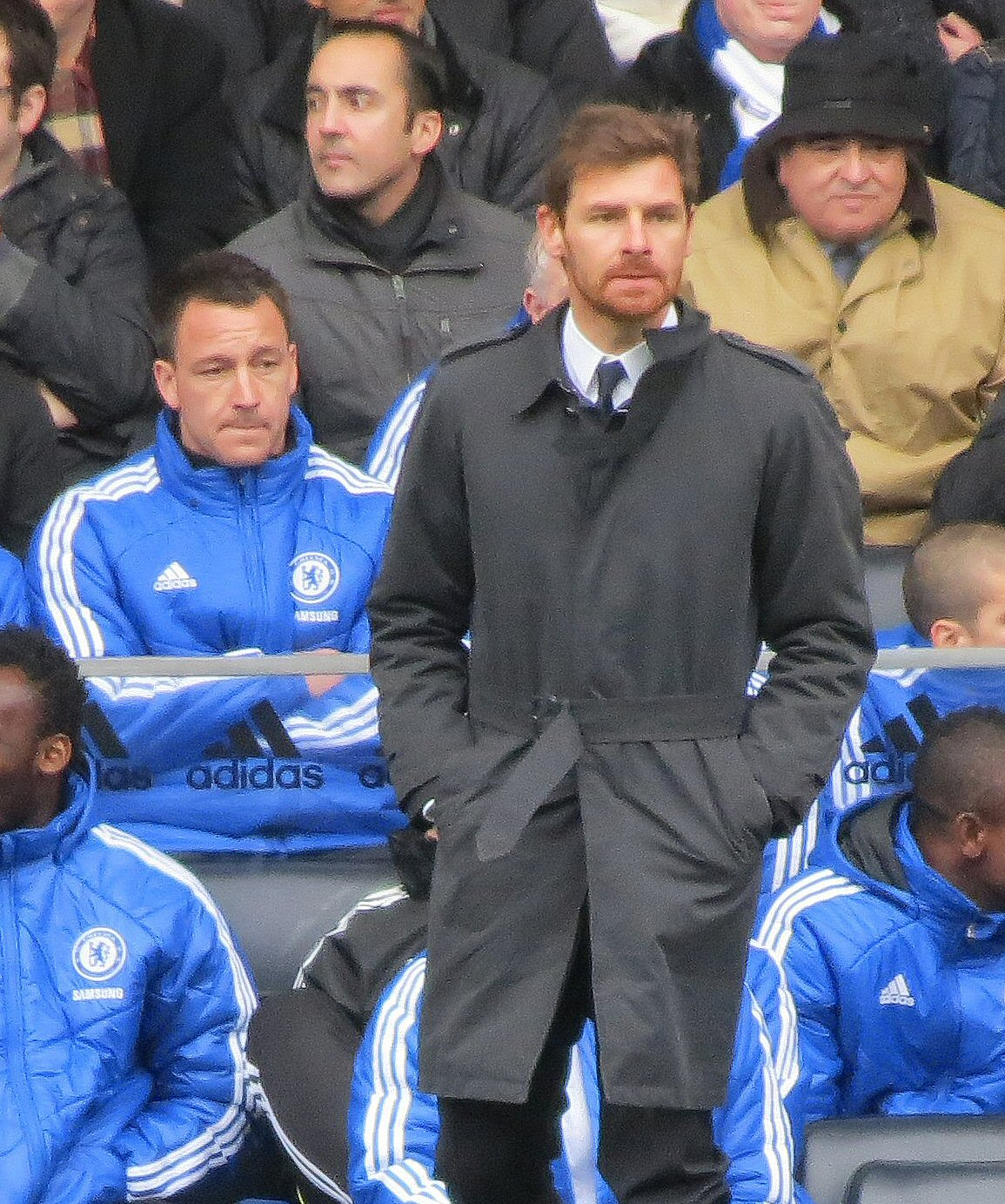 Chelsea manager Andre Villas Boas on the touchline at home to Birmingham in the FA Cup 5th round 2012, with captain John Terry in the background.